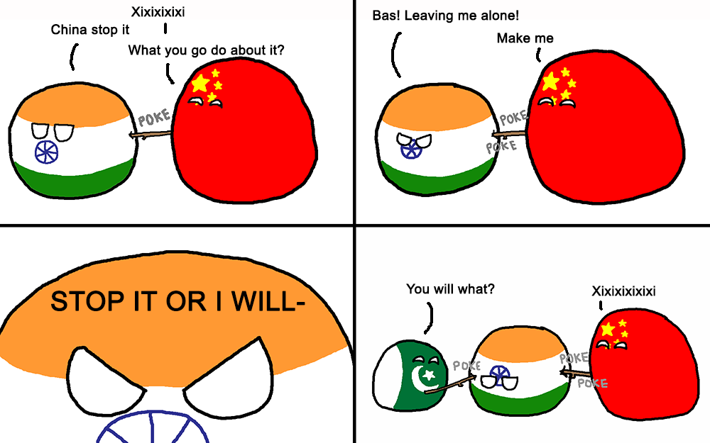 Polandball comic depicting the relations of India with China and Pakistan